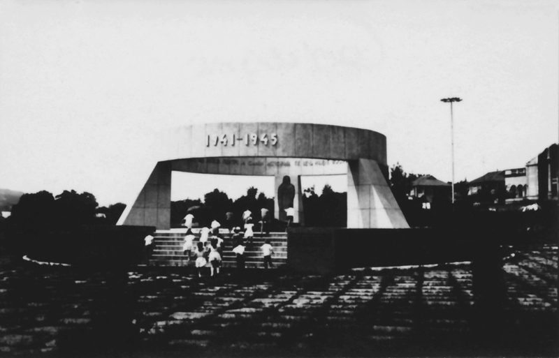 "Monument to the villagers who died in World War II, the village Cojusna, Straseni District" (80-ies famous).